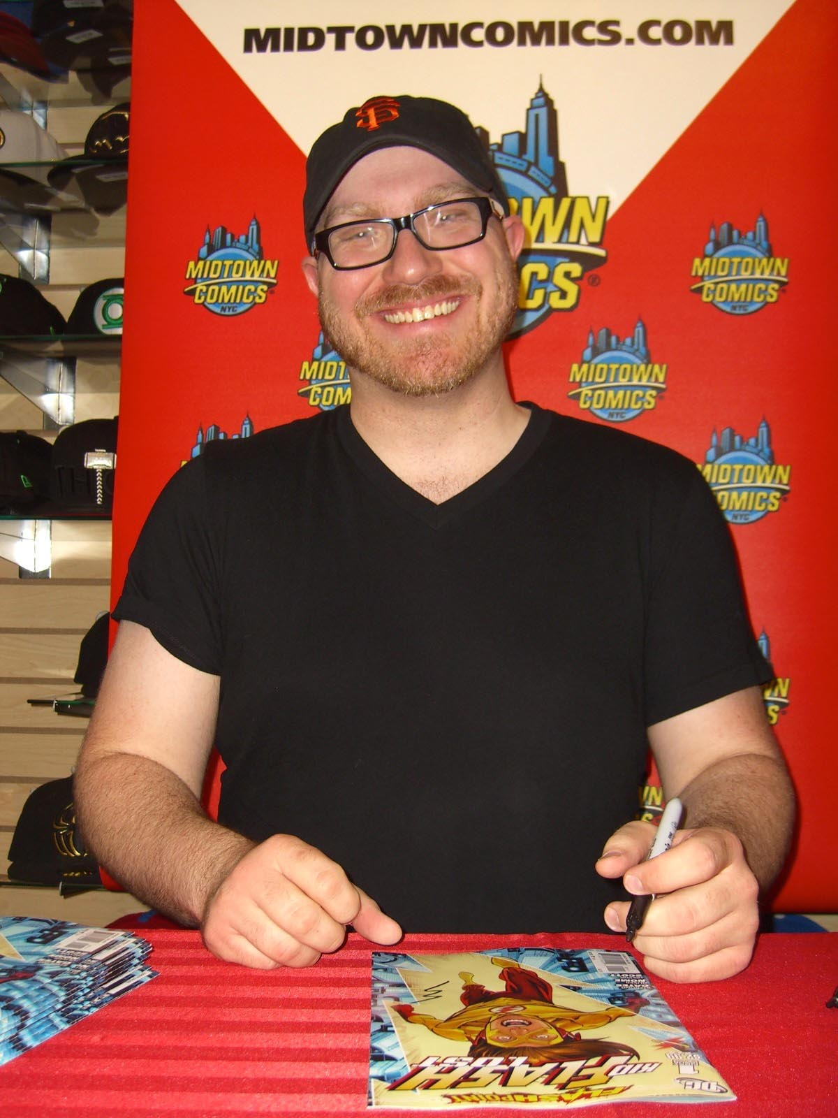 Comic book writer Sterling Gates signing Flashpoint: Kid Flash Lost #1 at Midtown Comics Downtown in Manhattan, June 23, 2011. This photo was created by Luigi Novi. It is not in the public domain, and use of this file outside of the licensing terms is a copyright violation.